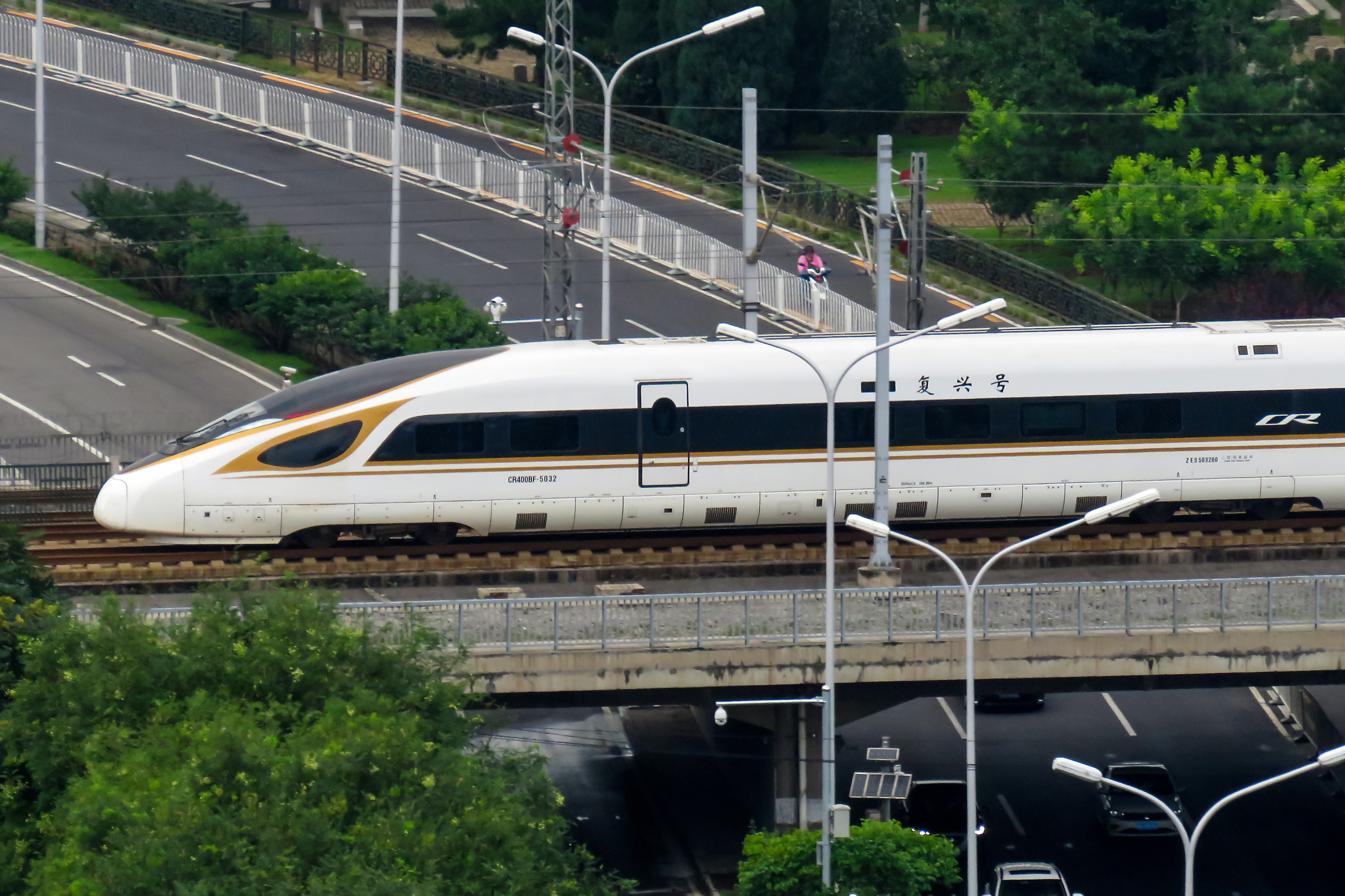 C2104 from Tianjin. Didn't see that (in)famous 5033, although that trouble-maker did run today... CR400BF-5033 has fouled up for several times, dating from its delivery journey where its hotbox warning was triggered. A series of hot box problems occur afterwards...